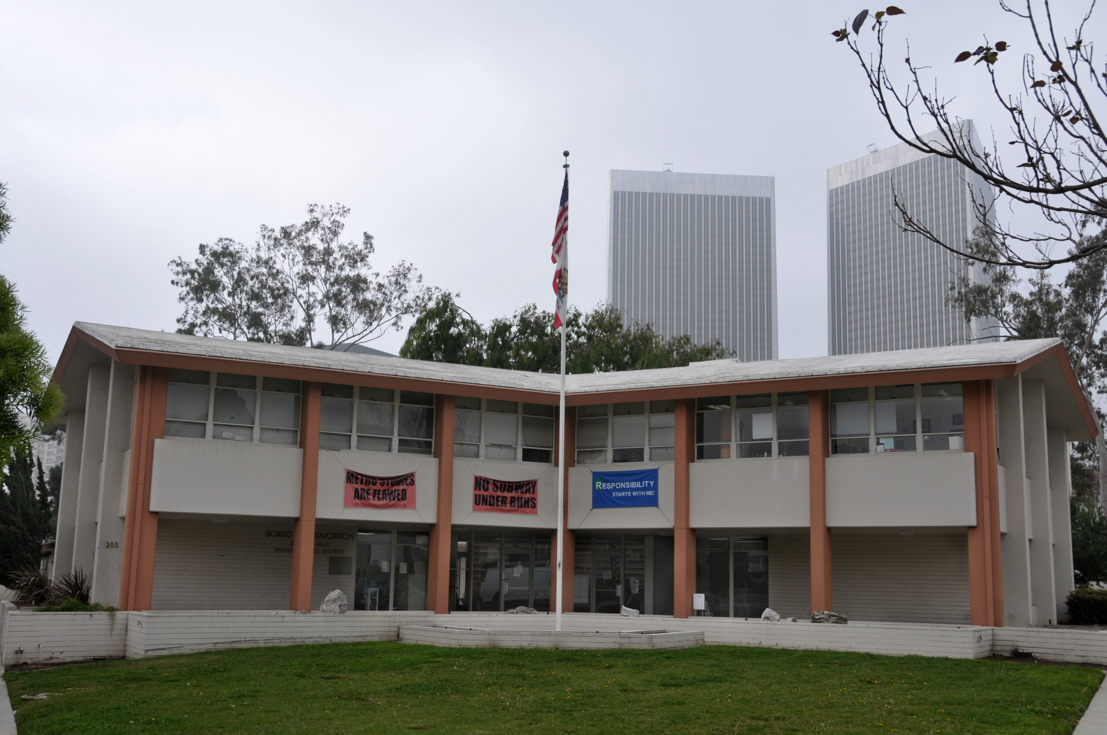 Beverly Hills Unified School District headquarters, Beverly Hills, California - Photo by Glenn Francis of